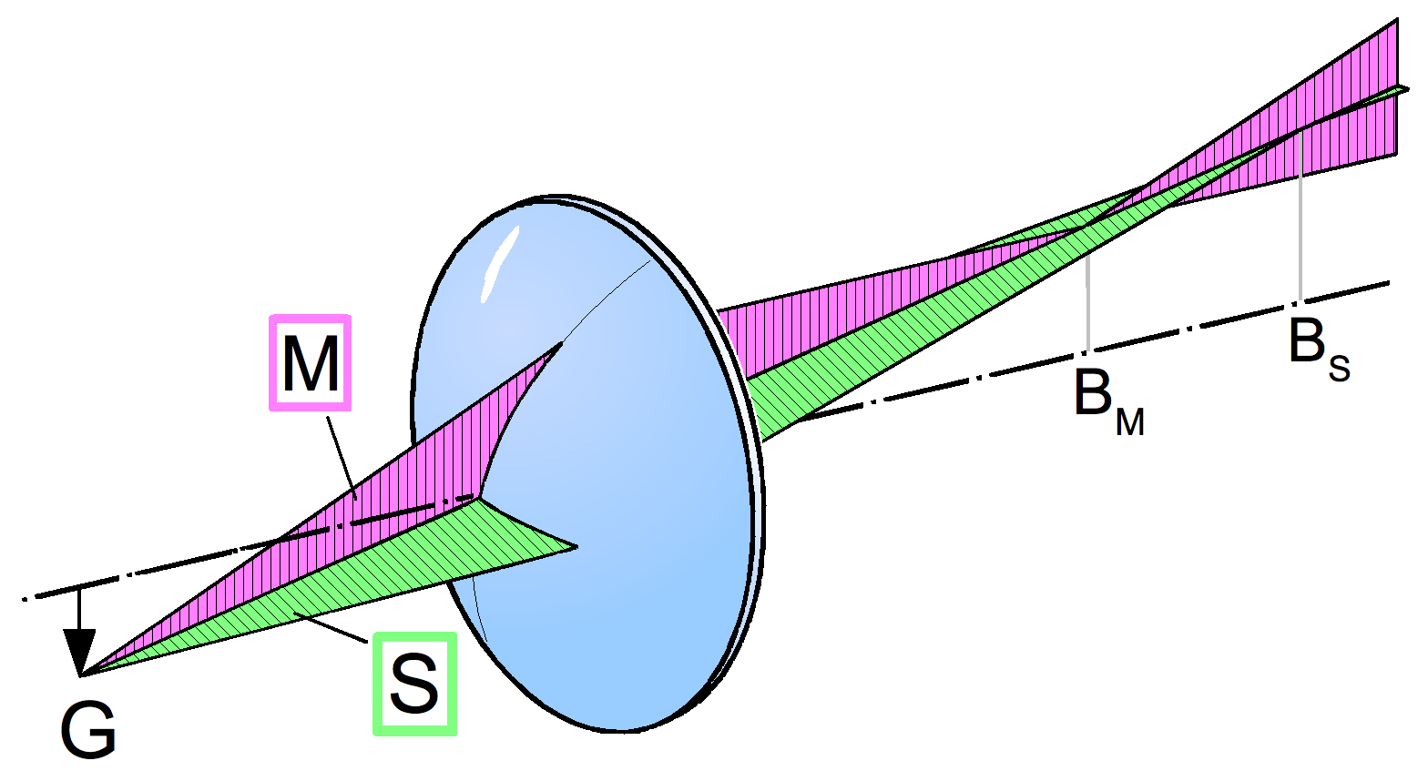 A convex lens with rays emitted by an off-axis object. Meridional and saggital planes are marked as "M" and "S" respectively. Due to astigmatism (strongly exaggerated here), the image planes "B" are different for rays in the meridional and saggital planes.